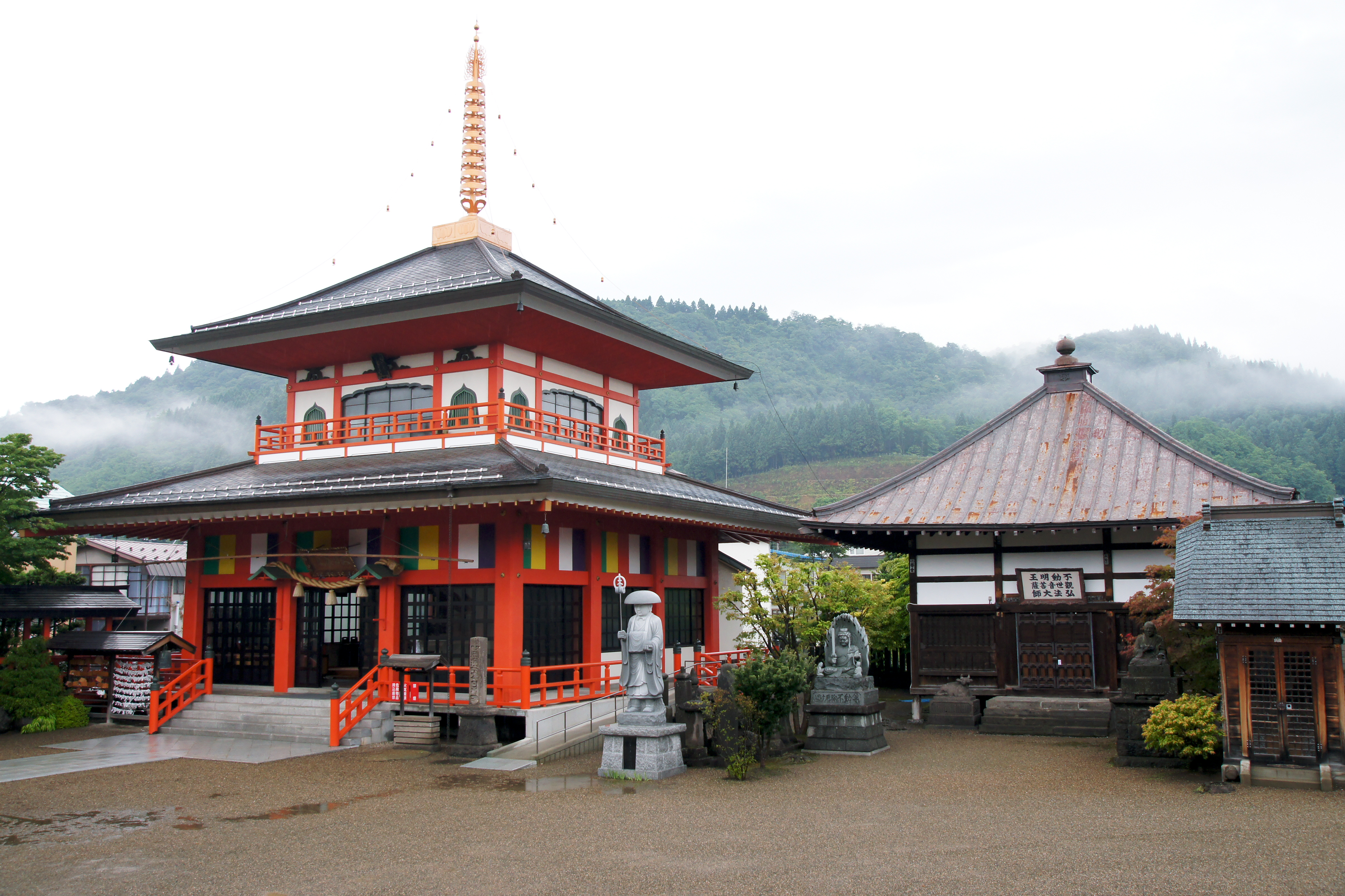 Daien-ji in Owani, Aomori prefecture, Japan.